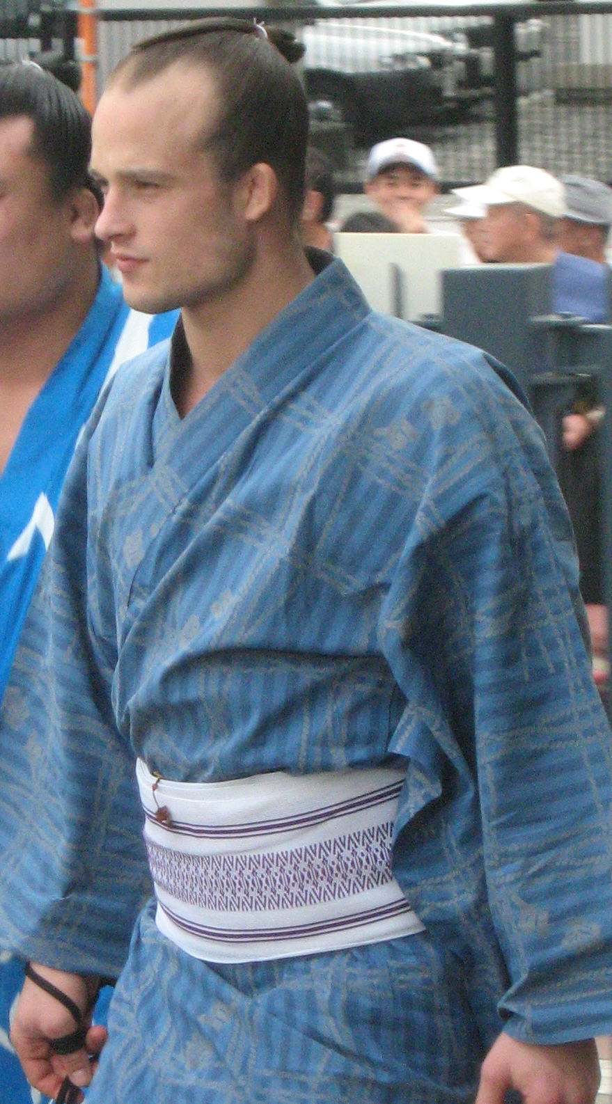 Taken at 2008 tournament September